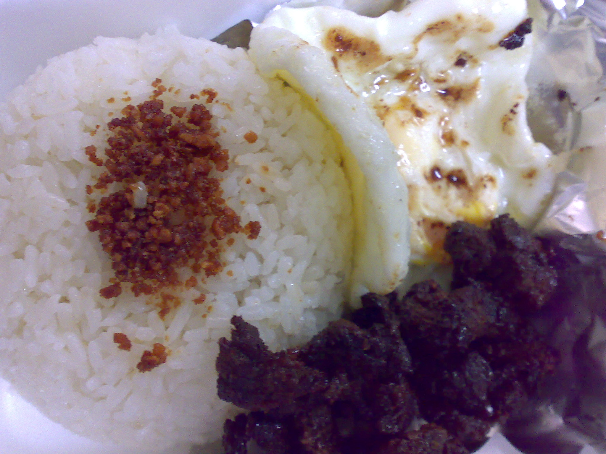 Tapsilog: Tapa, Sinangag at Itlog. (Jerked beef, fried garlic rice and fried egg).